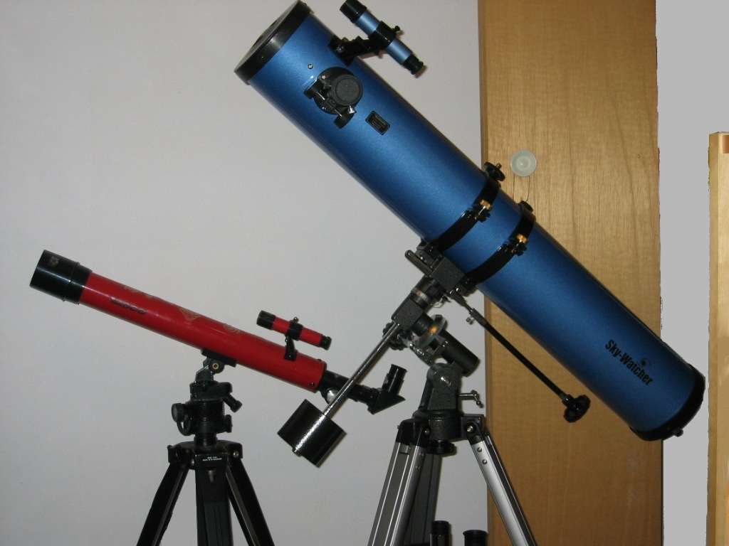 Original description at Wikipedia: "Image of 50mm department-store tasco telescope on modified mount, and a 114mm SkyWatcher EQ1 Reflector from a telescope store."; edited using GIMP to remove unnecessary detail.